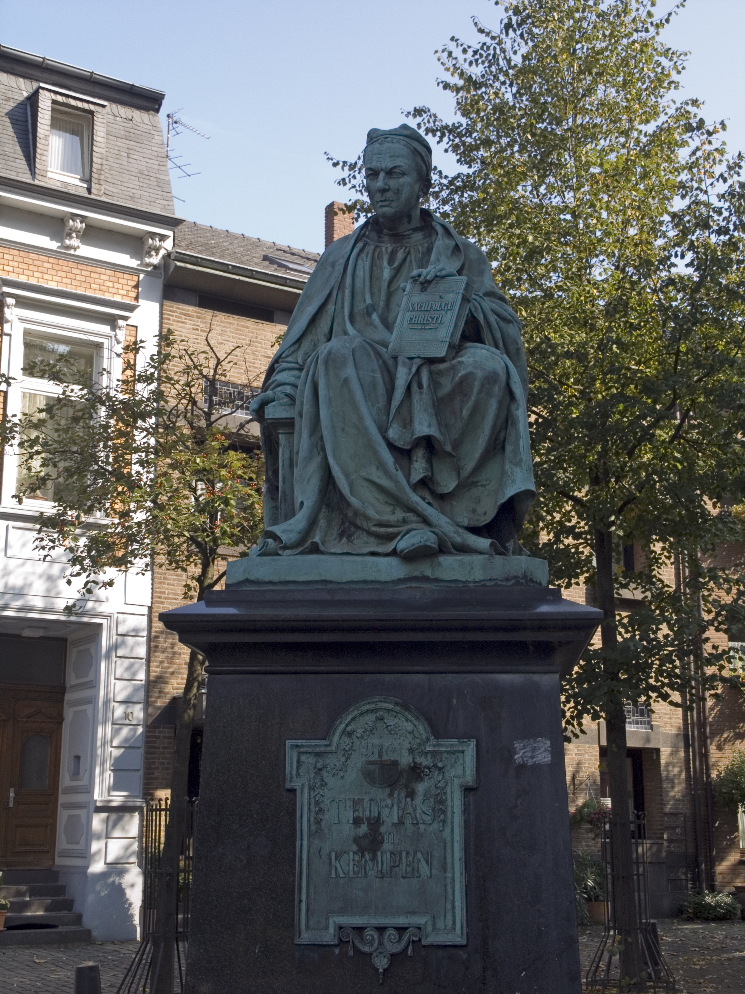 A monument to Thomas a Kempis in Kempen, North Rhine-Westphalia, Germany.